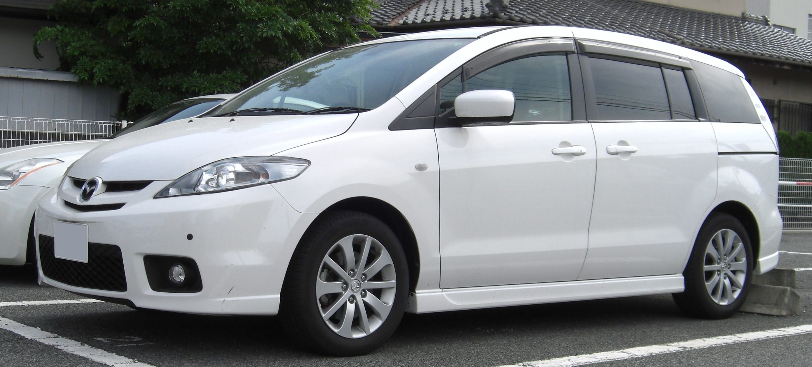 Mazda Premacy